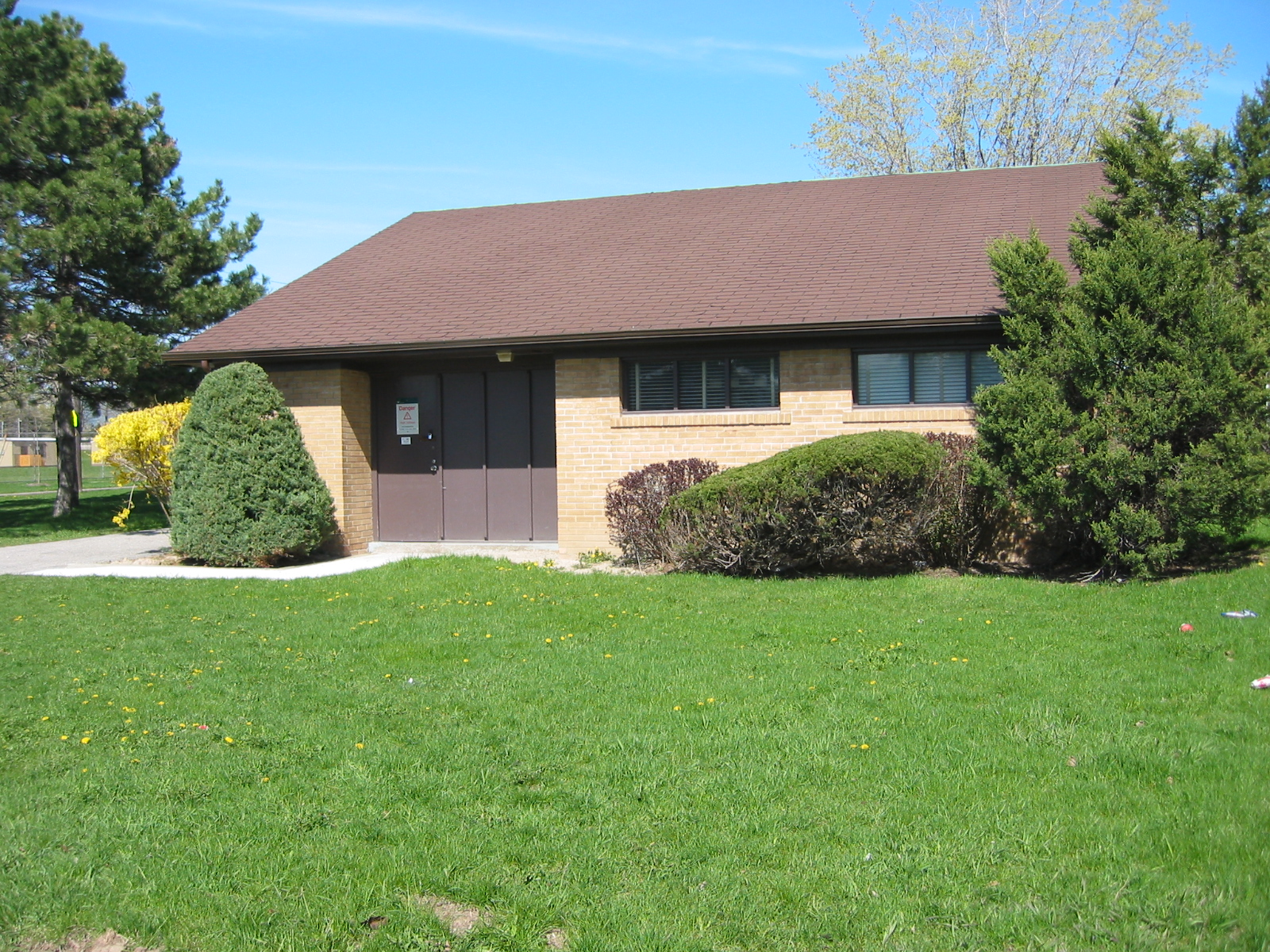 An electrical substation in Scarborough, Ontario, Canada disguised as a house. This image is the uploader's own work, and he releases it into the public domain. Isn't the forsythia lovely?